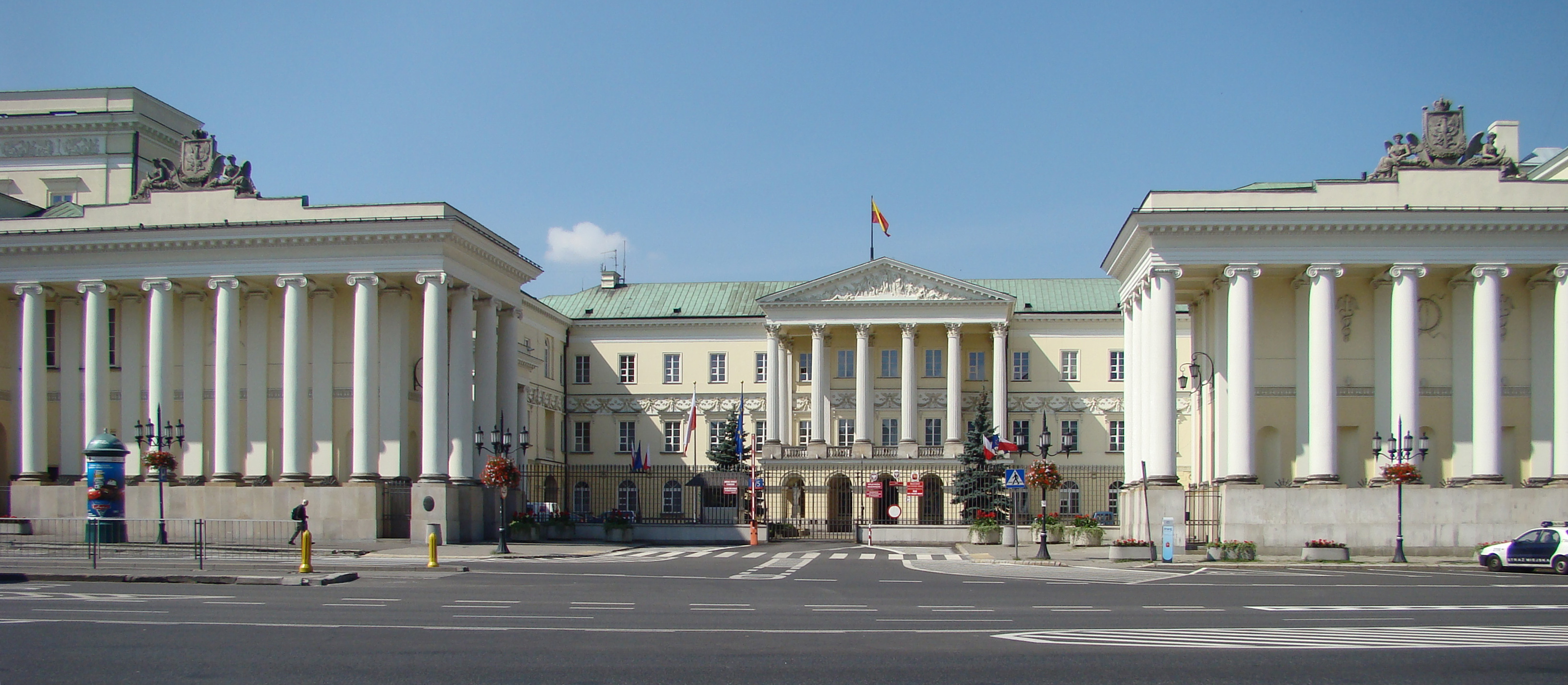 Warsaw Town Hall